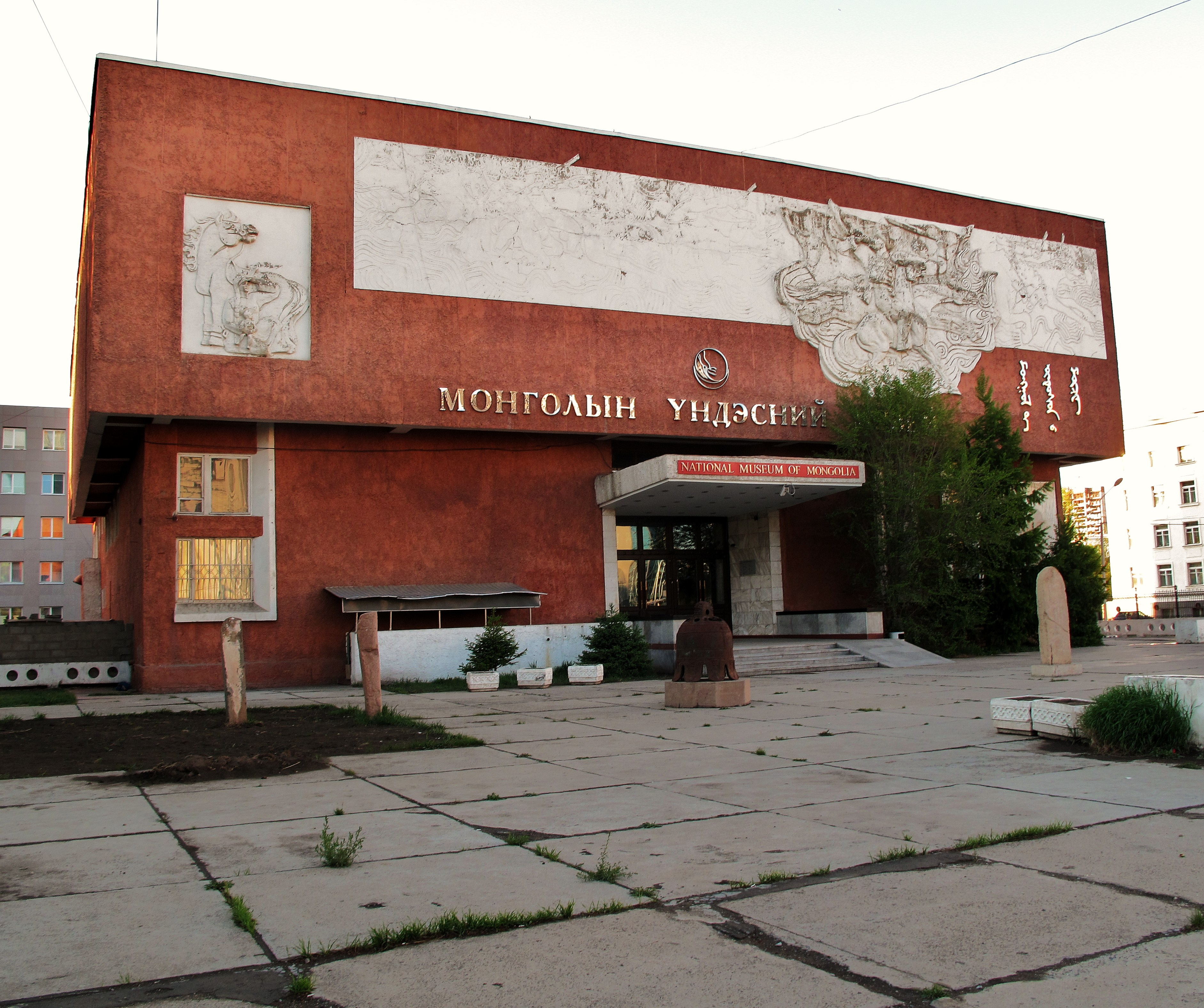 National Museum of Mongolia